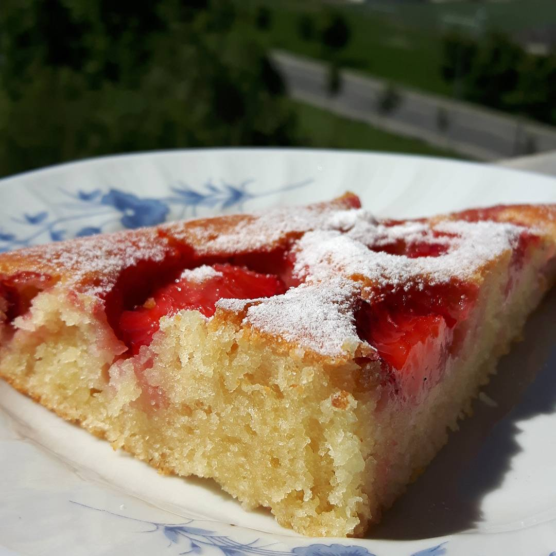 Homemade strawberry pie with sugar.